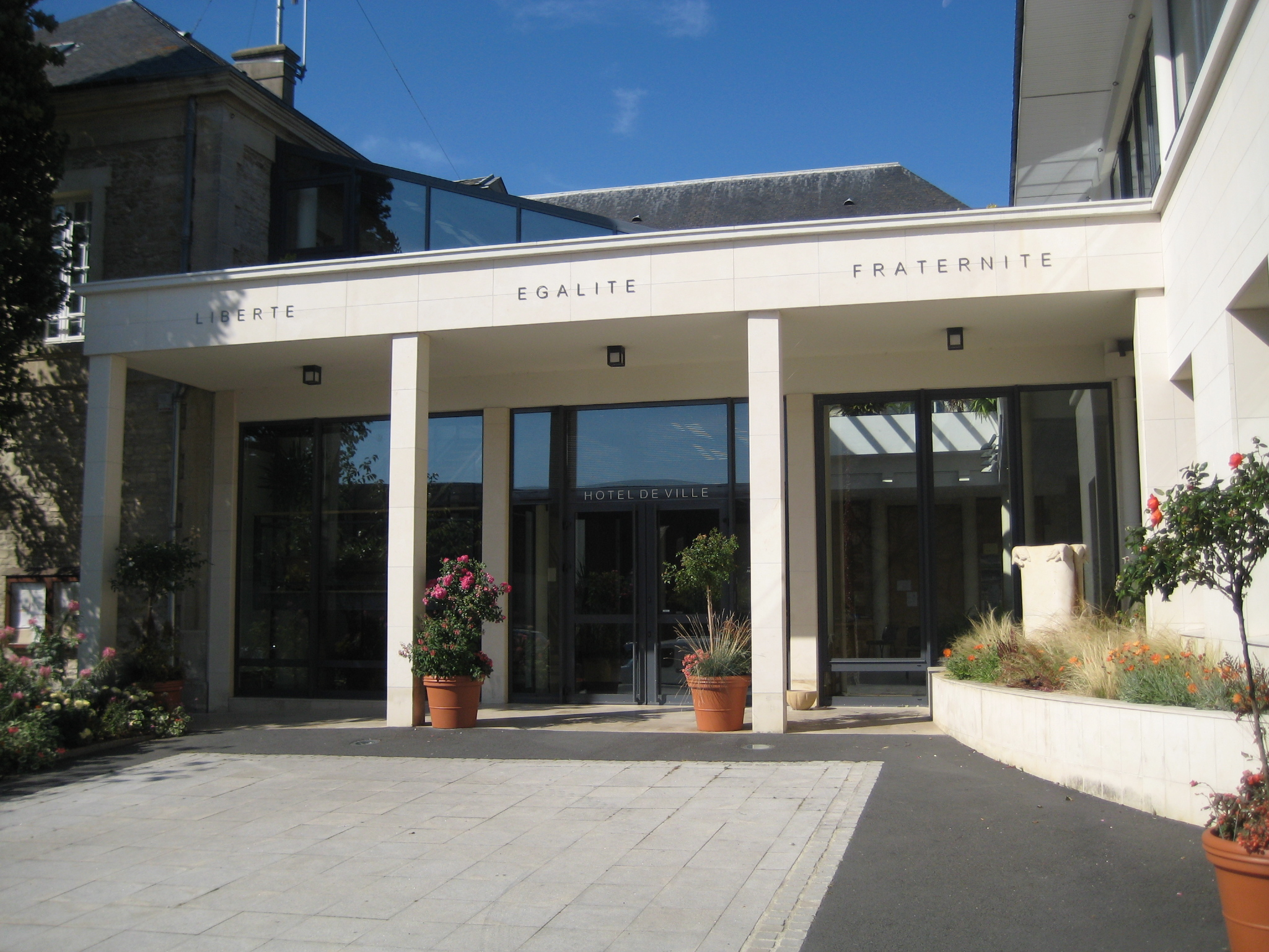 Town hall of Ouistreham, Calvados, france